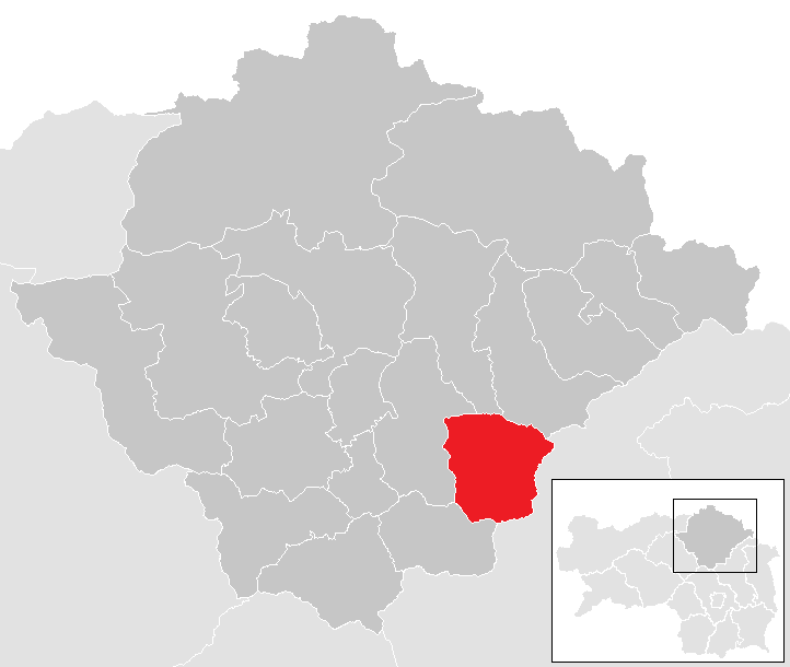 district Bruck-Mürzzuschlag